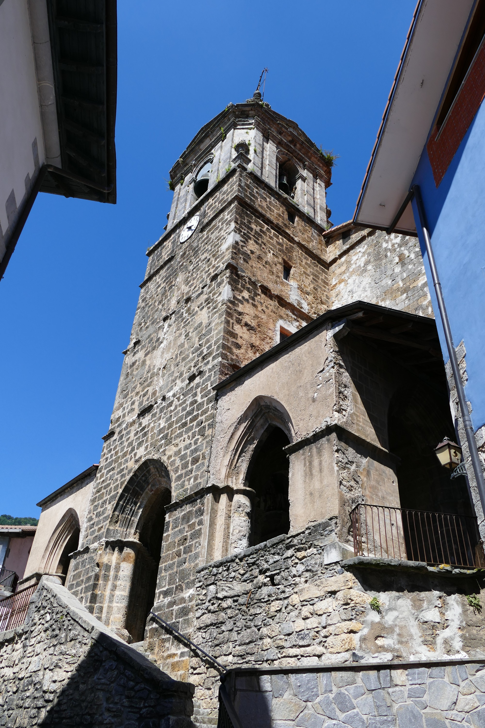 Saint-Martin's church in Errezil (Guipuscoa, Basque Country, Spain).